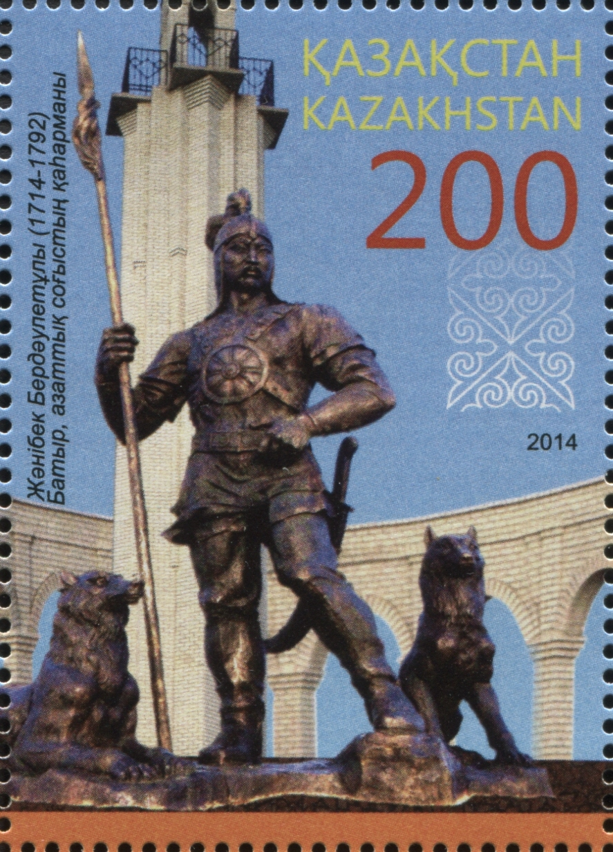 Stamps of Kazakhstan, 2014